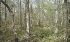 The Yuchi Town Site. Located within Fort Benning in Russell County, Alabama.